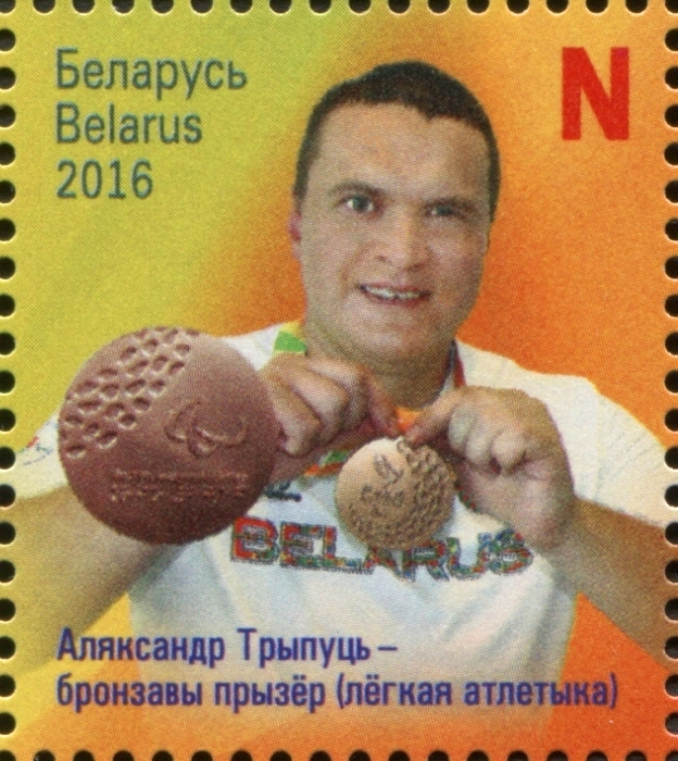 Medal Winners of the XV Summer Paralympic Games in Rio de Janeiro - Aliaksandr Tryputs - Bronze medal winner (athletics)